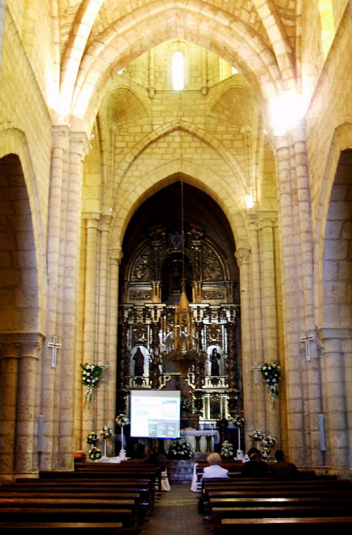 Iglesia de Santa María la Mayor de Villamuriel de Cerrato, Palencia, Castilla y León, España